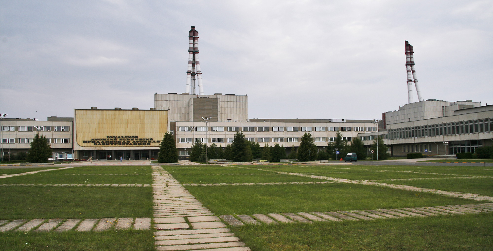 Ignalina Nuclear Power Plant, Lithuania with both Towers